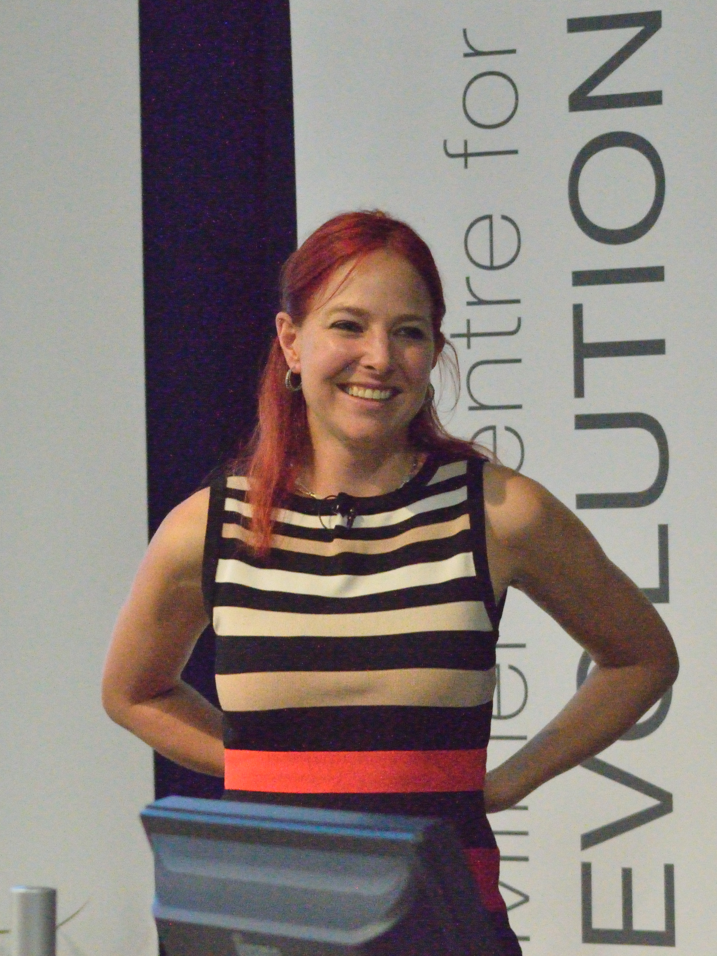 Professor Alice Roberts just before giving a public lecture "Tamed: three species that changed our world..." to celebrate the opening of the Milner Centre for Evolution at the University of Bath. The lecture was in University Hall, University of Bath.